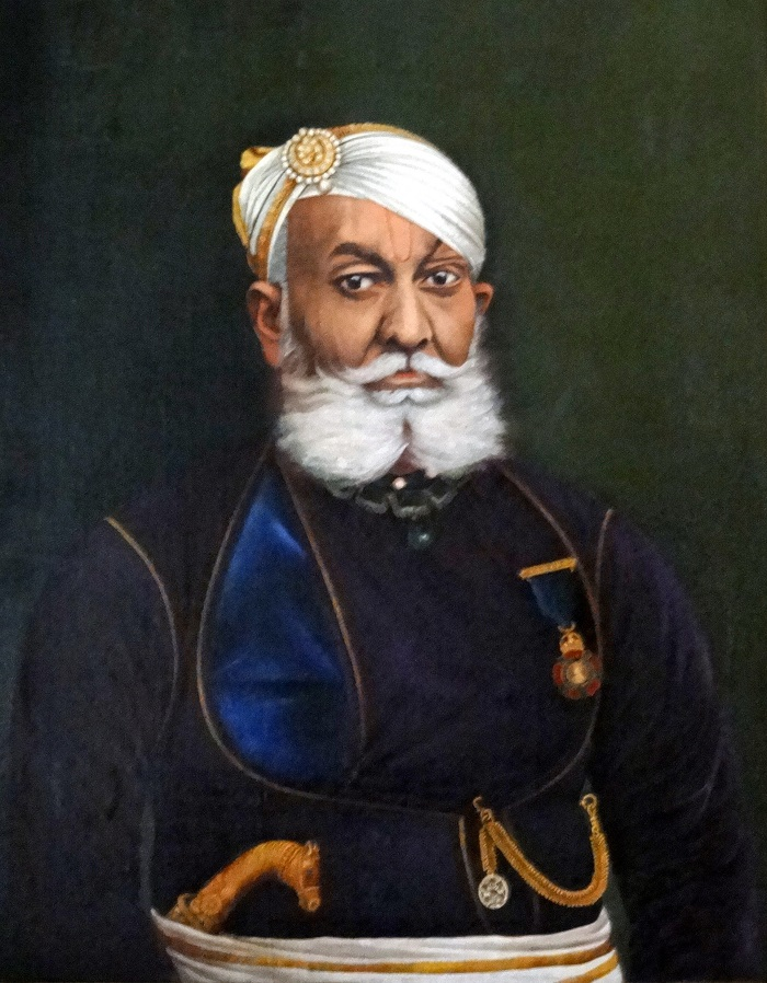 1905_Rai_Pannalal_Mehta